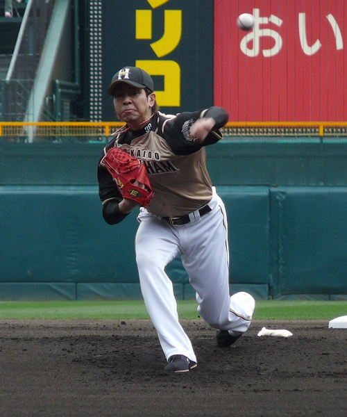 NF-Masaru-Takeda20120310